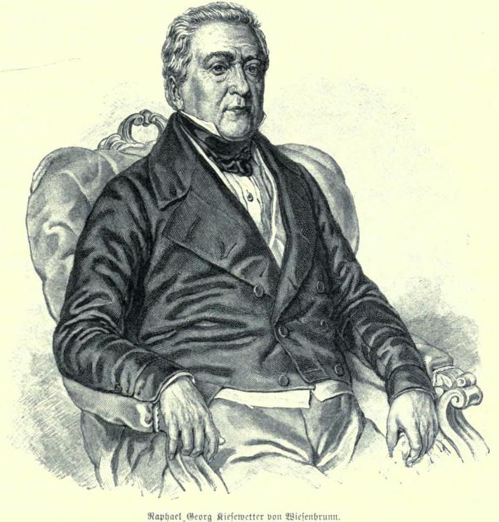 Portrait of Raphael Georg Kiesewetter (1773 - 1850), Austrian musician.